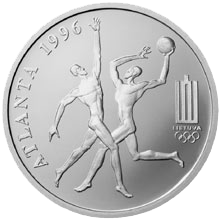 50 litas coin issued to mark the XXVI Olympic Games in Atlanta Silver Ag 925 Quality proof Diameter 34.00 mm Weight 23.30 g The words on the edge of the coin: CITIUS. ALTIUS. FORTIUS The designer of the coin is Giedrius Paulauskis Issued 1996 Minted 6,000 pcs Distribution terminated 2001 Distributed 6,000 pcs The coin was minted at the state enterprise Lithuanian Mint.